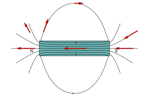 Field lines of a magnet (bar).